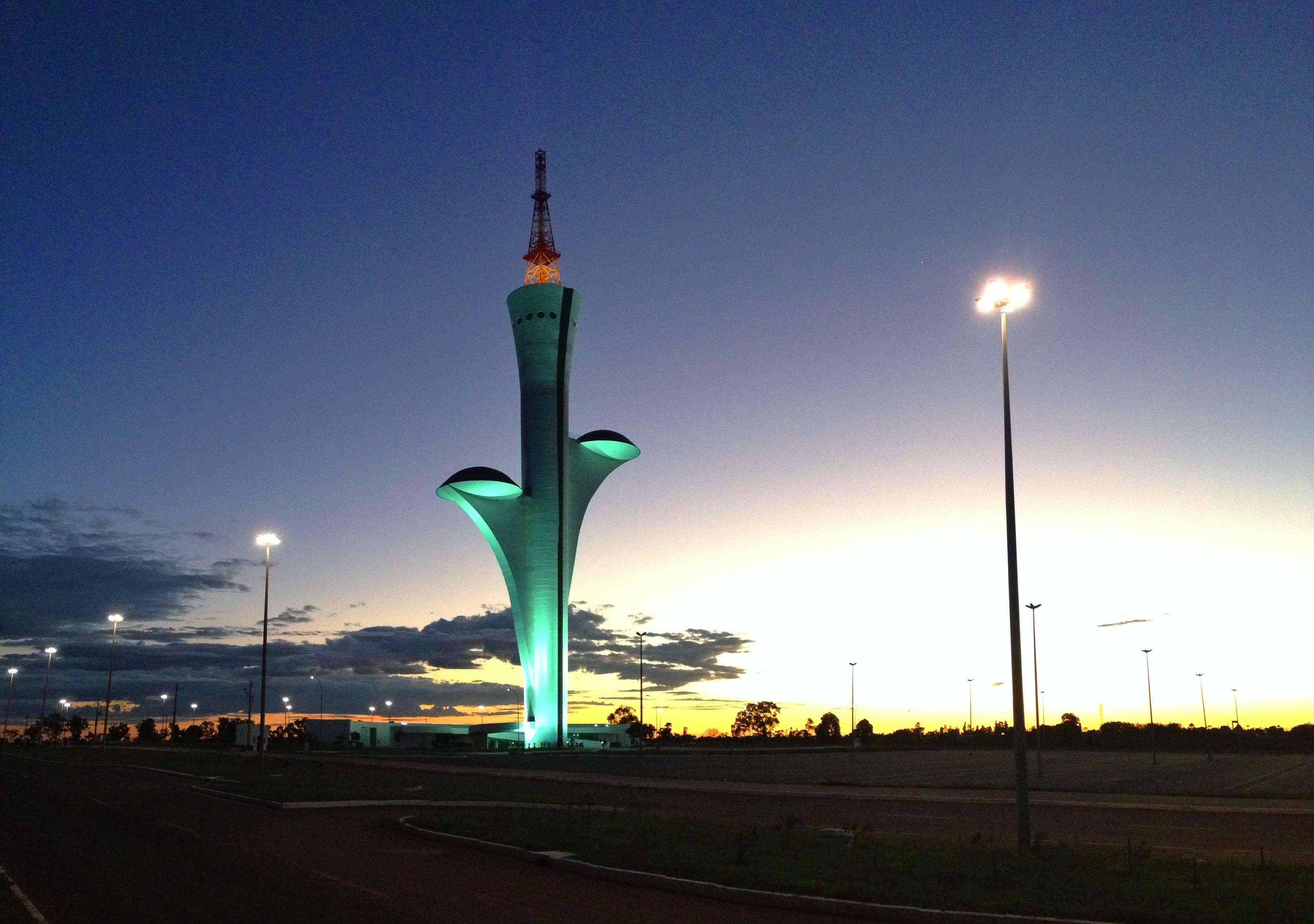 Digital TV Tower, Brasilia, Brazil